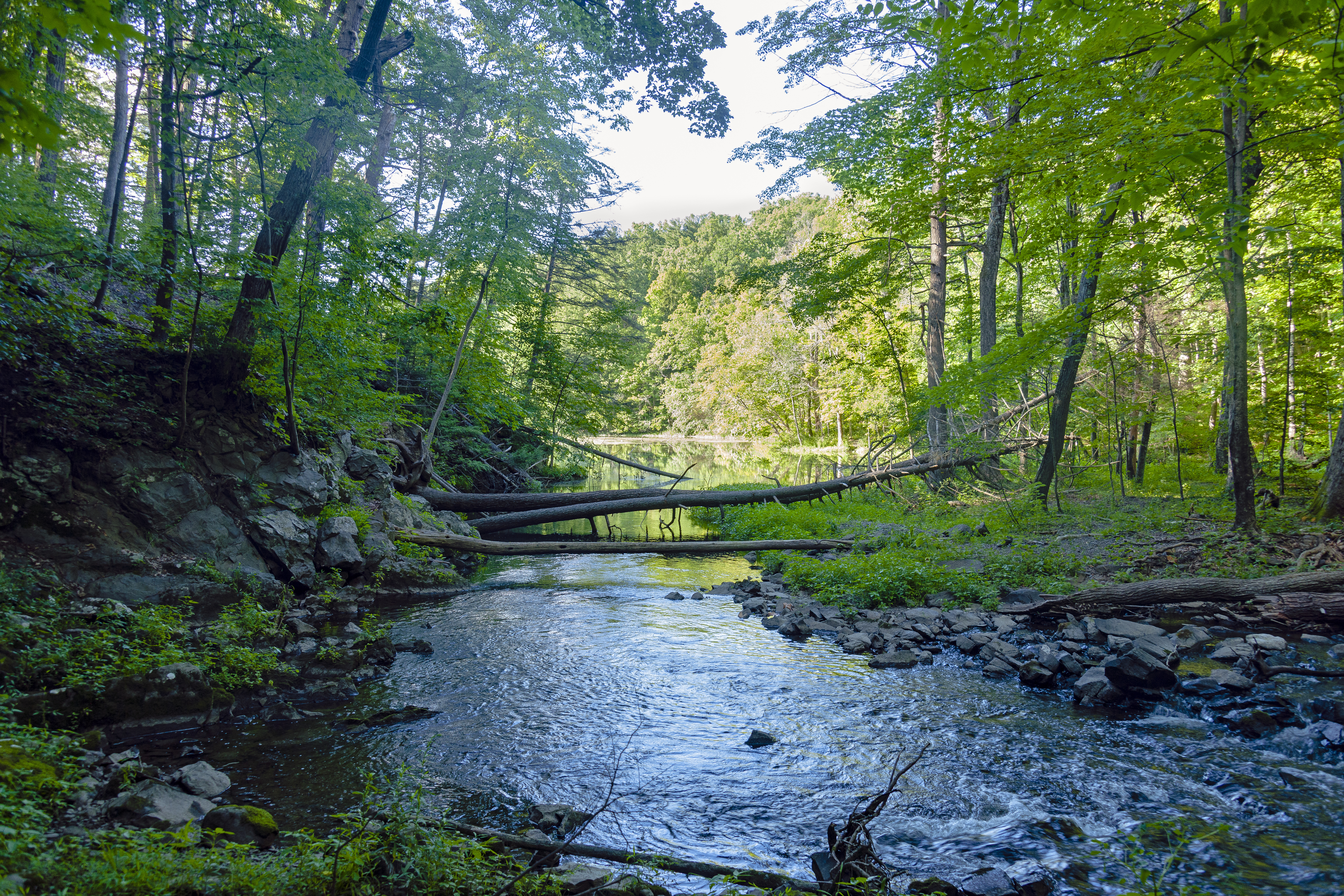 The Saw Kill flows into the Hudson River (large calm area in rear) from the Montgomery Place property in Annandale, NY, USA. Property on right of image is Bard College